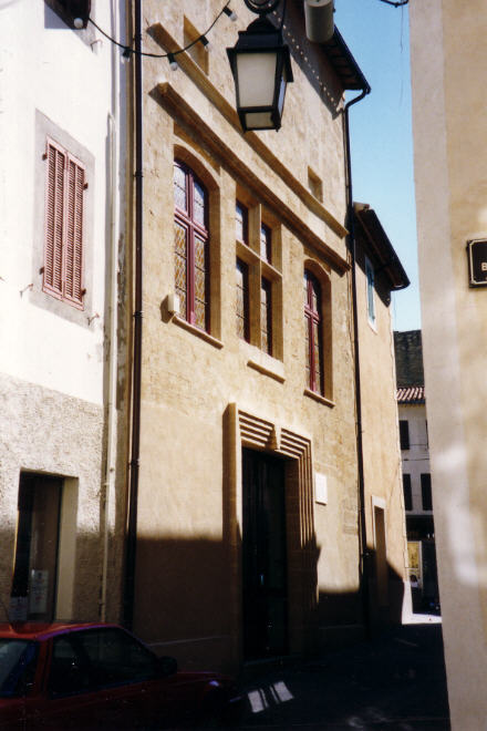 Nostradamus's house at Salon-de-Provence, Bouches-du-Rhône, France